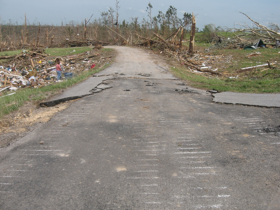 Large area of pavement scoured from a road in Phil Campbell.